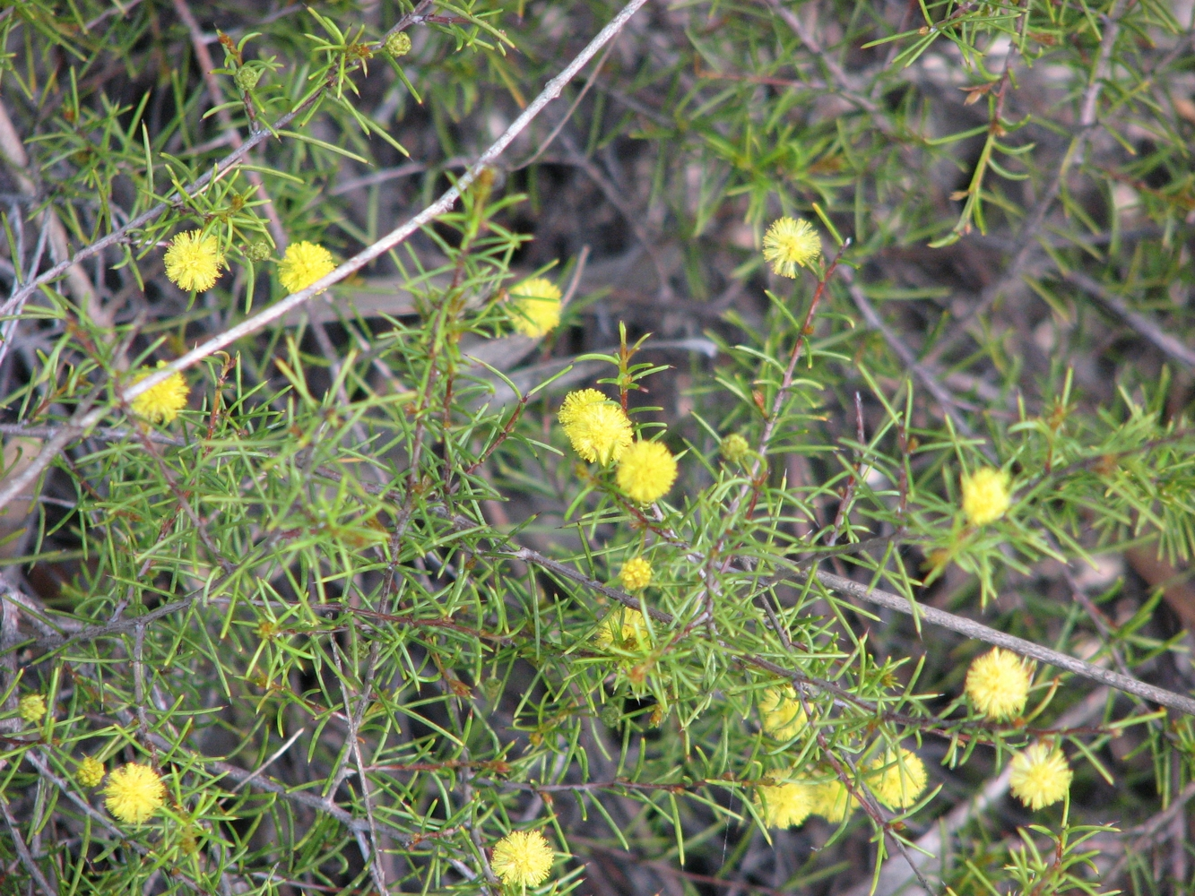 Acacia brownii (cultivated, labelled) Maranoa Gardens, Balwyn, Victoria, Australia